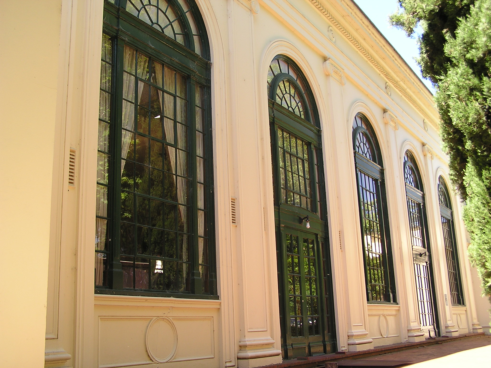 Windows of the Albert Hall, Canberra, on the south of the building Photo by AYArktos